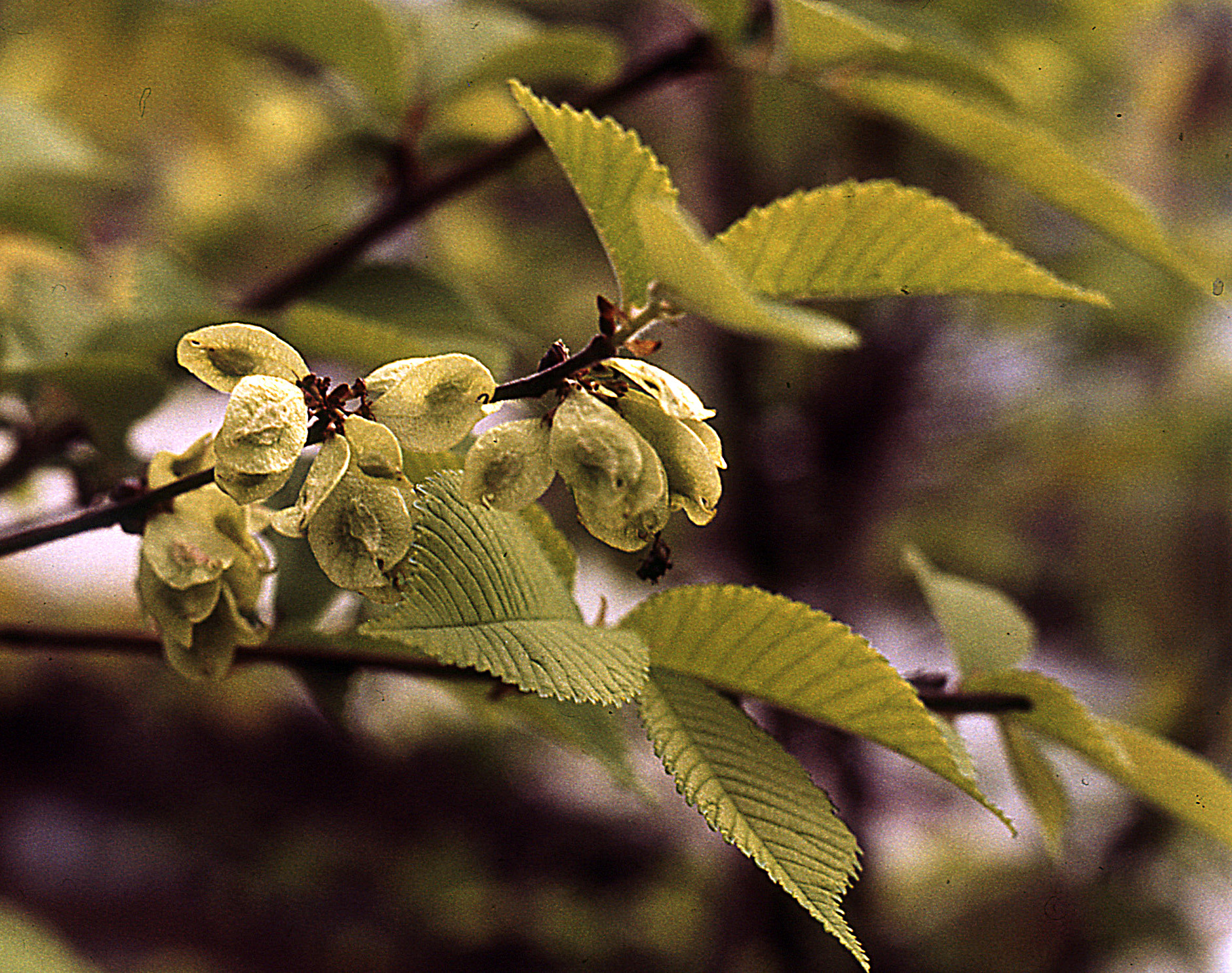 Unripe fruit and leaves of Ulmus chenmoui